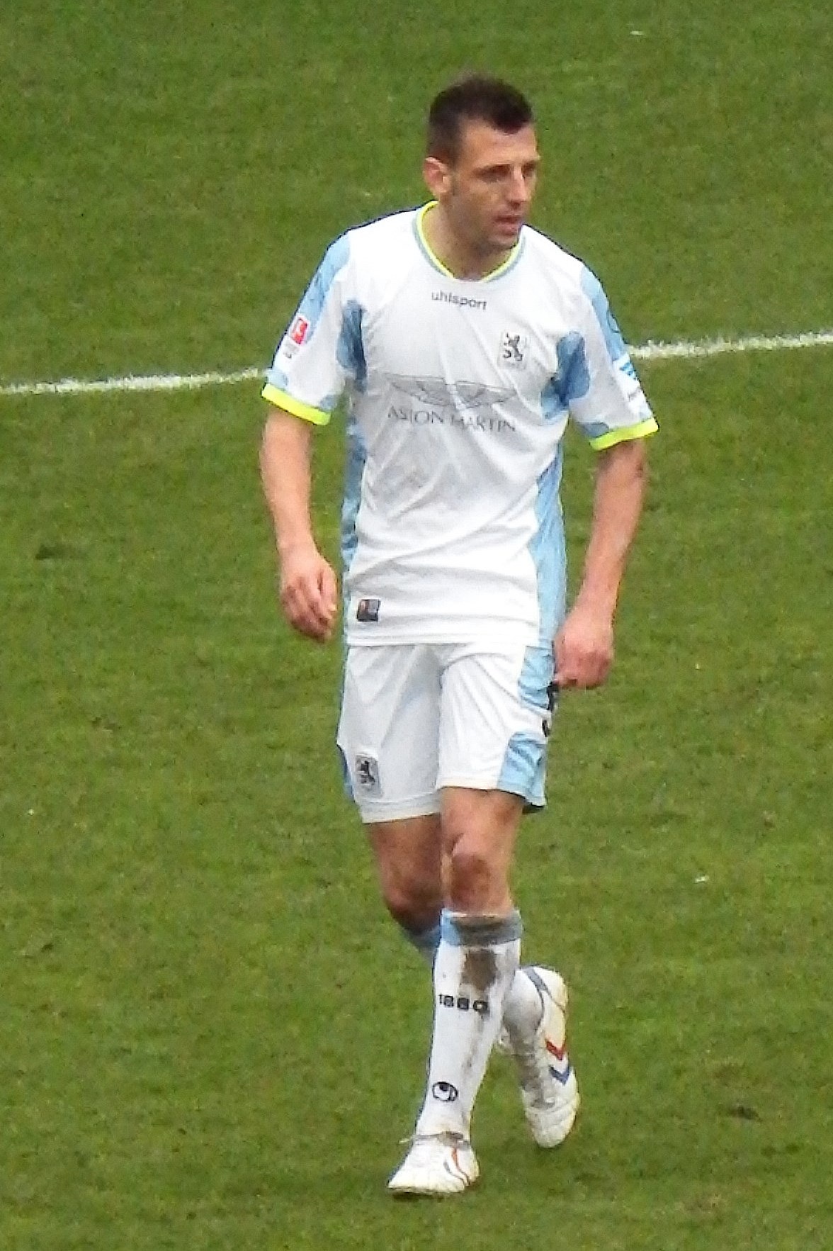 Guillermo Vallori as Player of TSV 1860 München